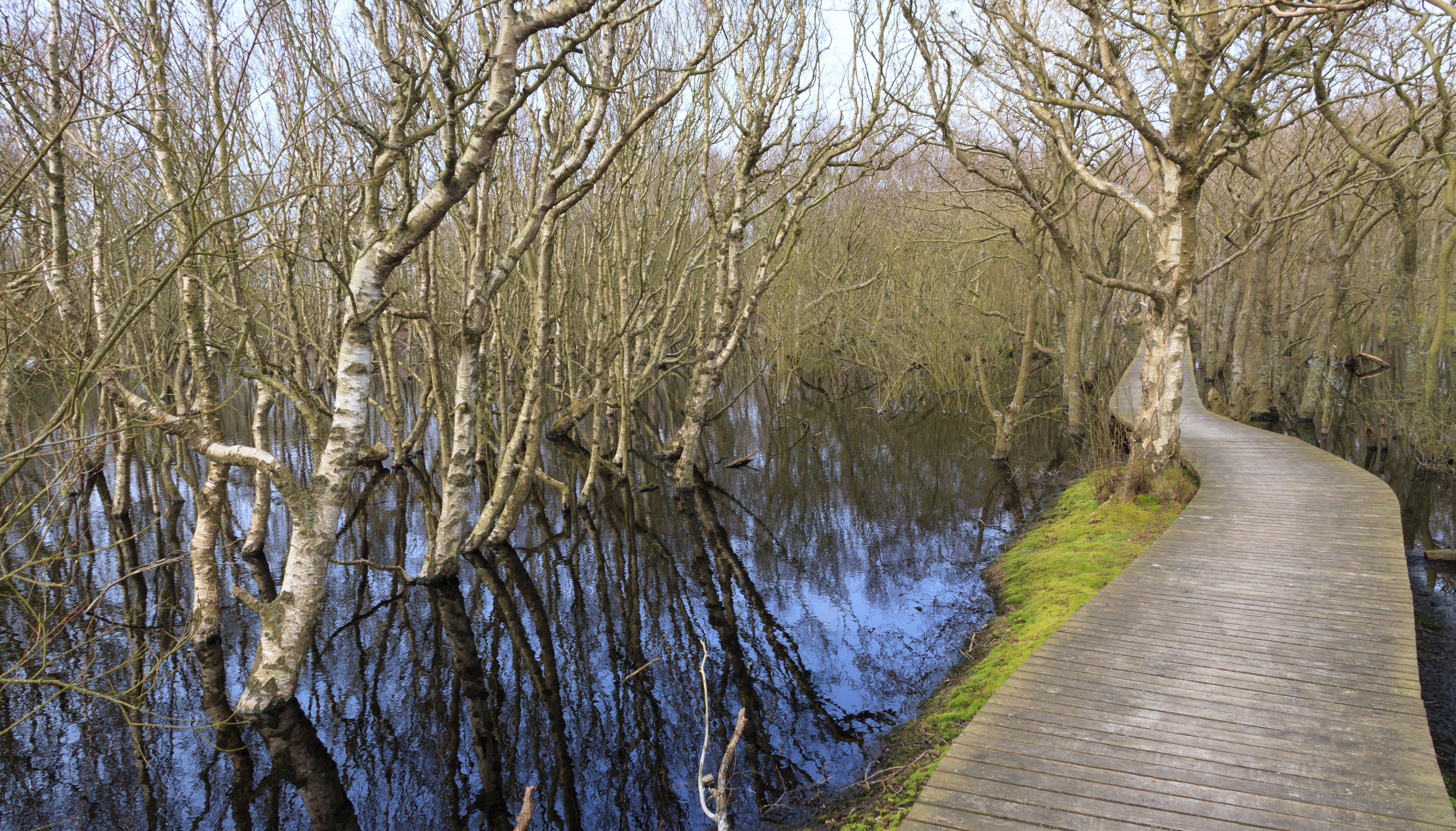 The making of this document was supported by the Community-Budget of Wikimedia Germany. Bruchwald an der Vogelkoje Meeram